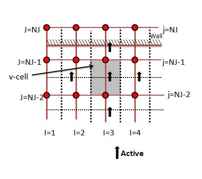 v-cell at physical boundary j=NJ